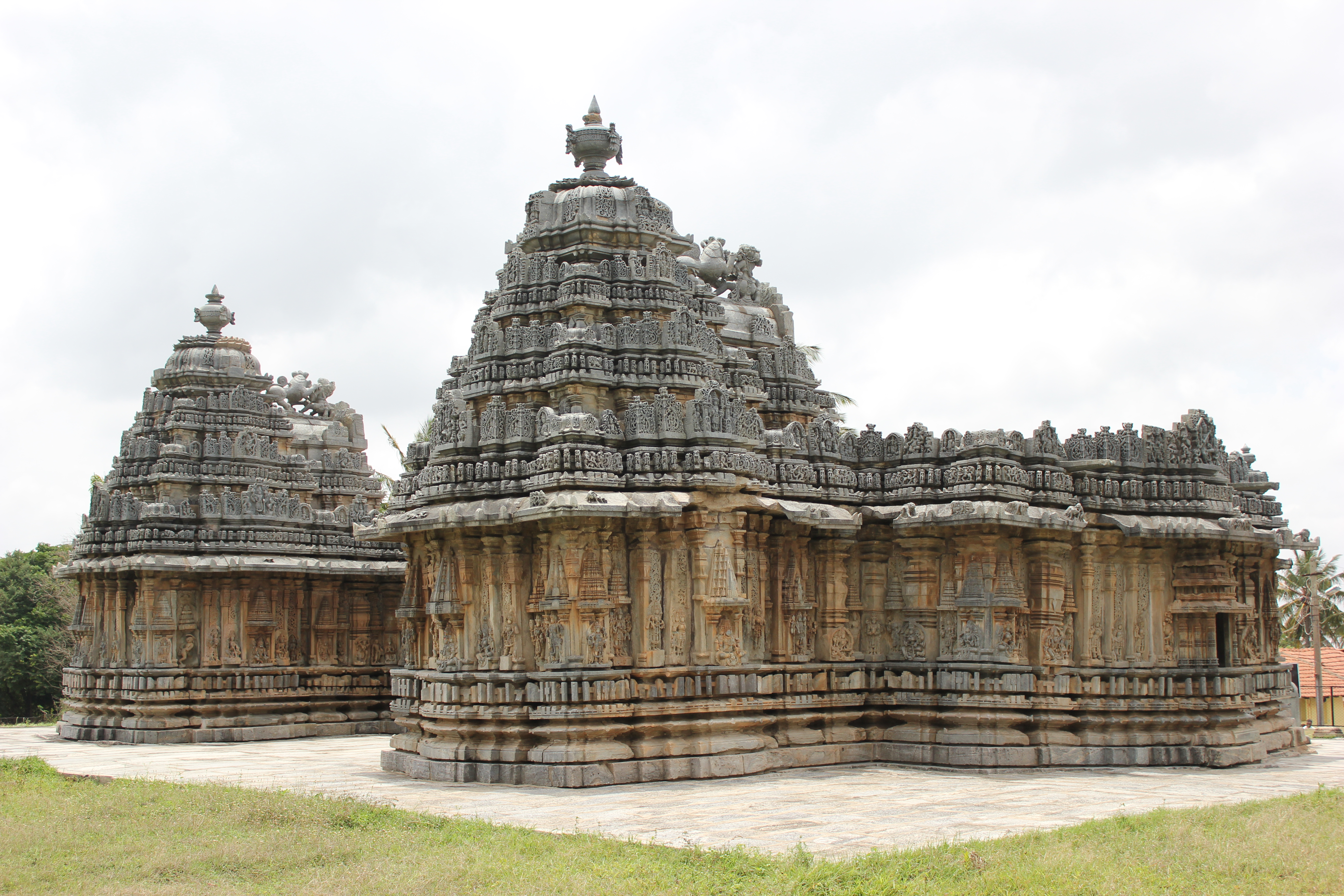 This photograph was taken by me at Mosale town in Hassan district of Karnataka state, India. Mosale is home to the twin temples built by Hoysala Empire King Veera Ballala II in 1200 A.D.; the Nageshvara and Chennakeshava temples.